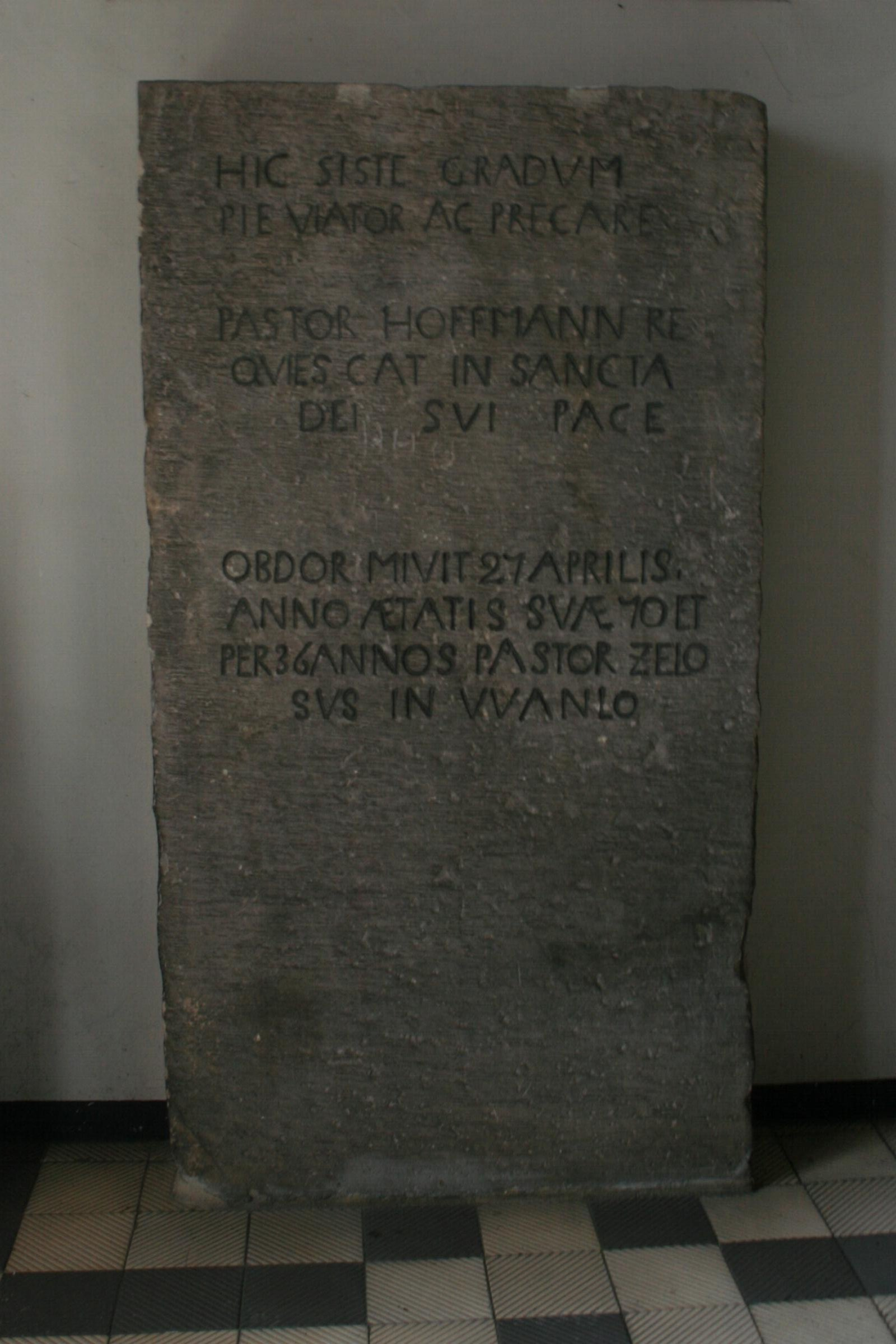 Cultural heritage monument No. A 037 in Mönchengladbach